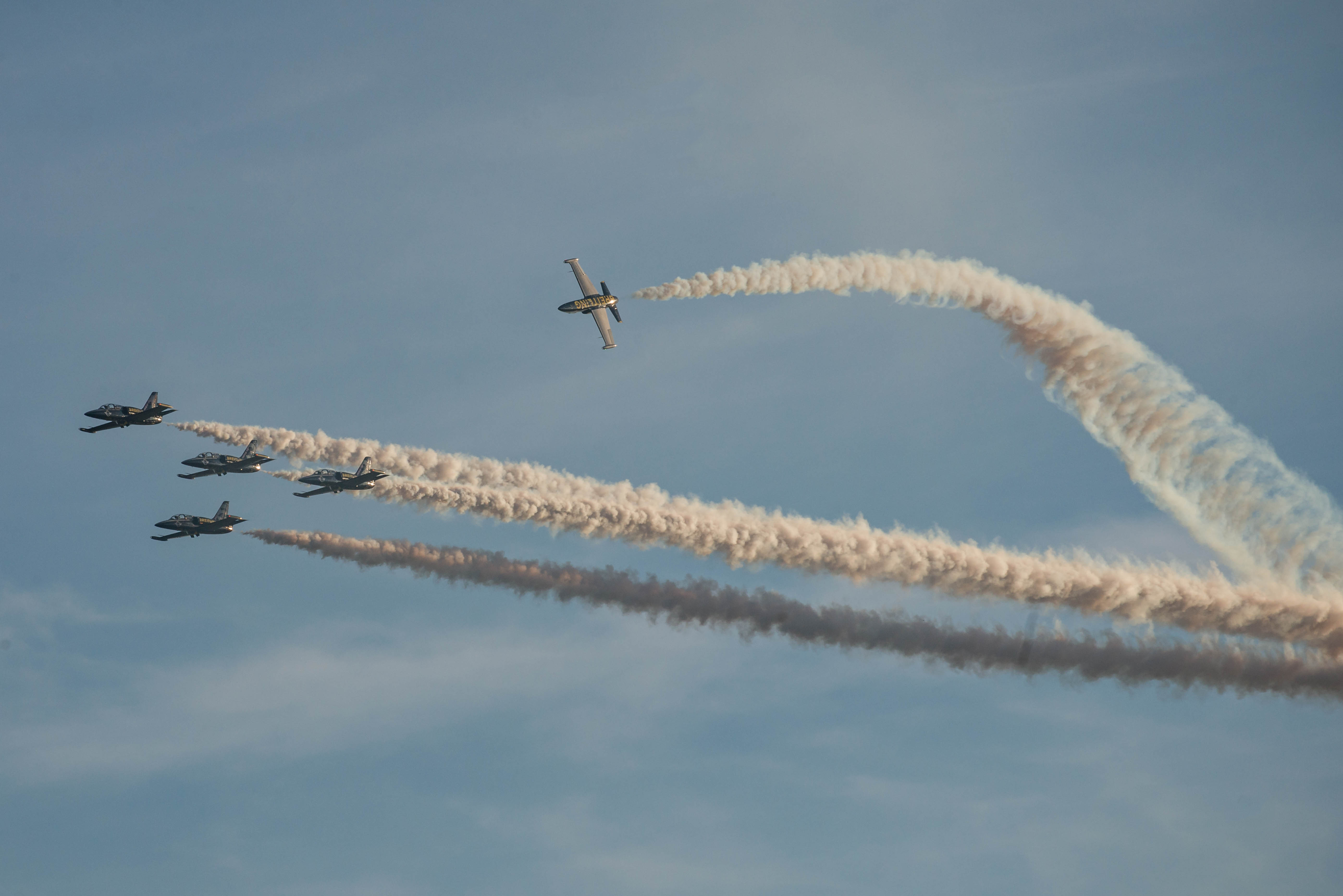 2016 Abbotsford International Airshow